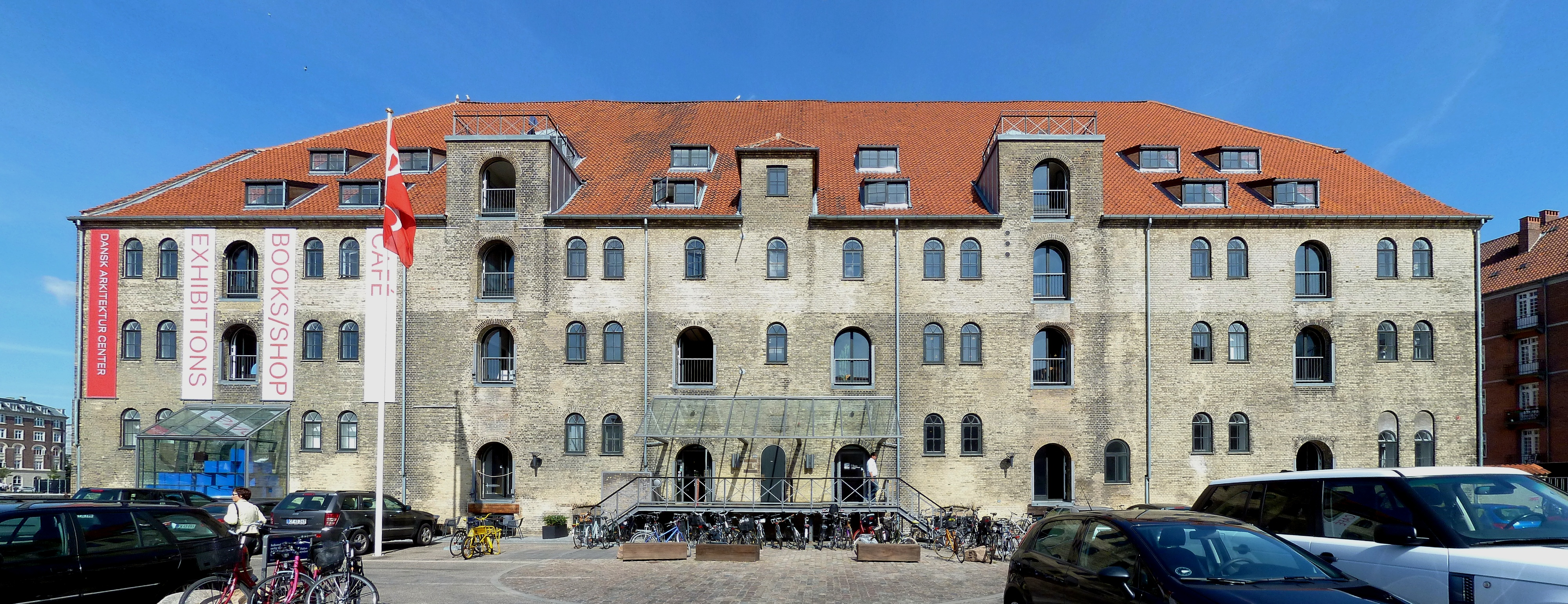 Gammel Dok (Danish Architecture Centre) in the Christianshavn neighbourhood of Copenhagen, Denmark